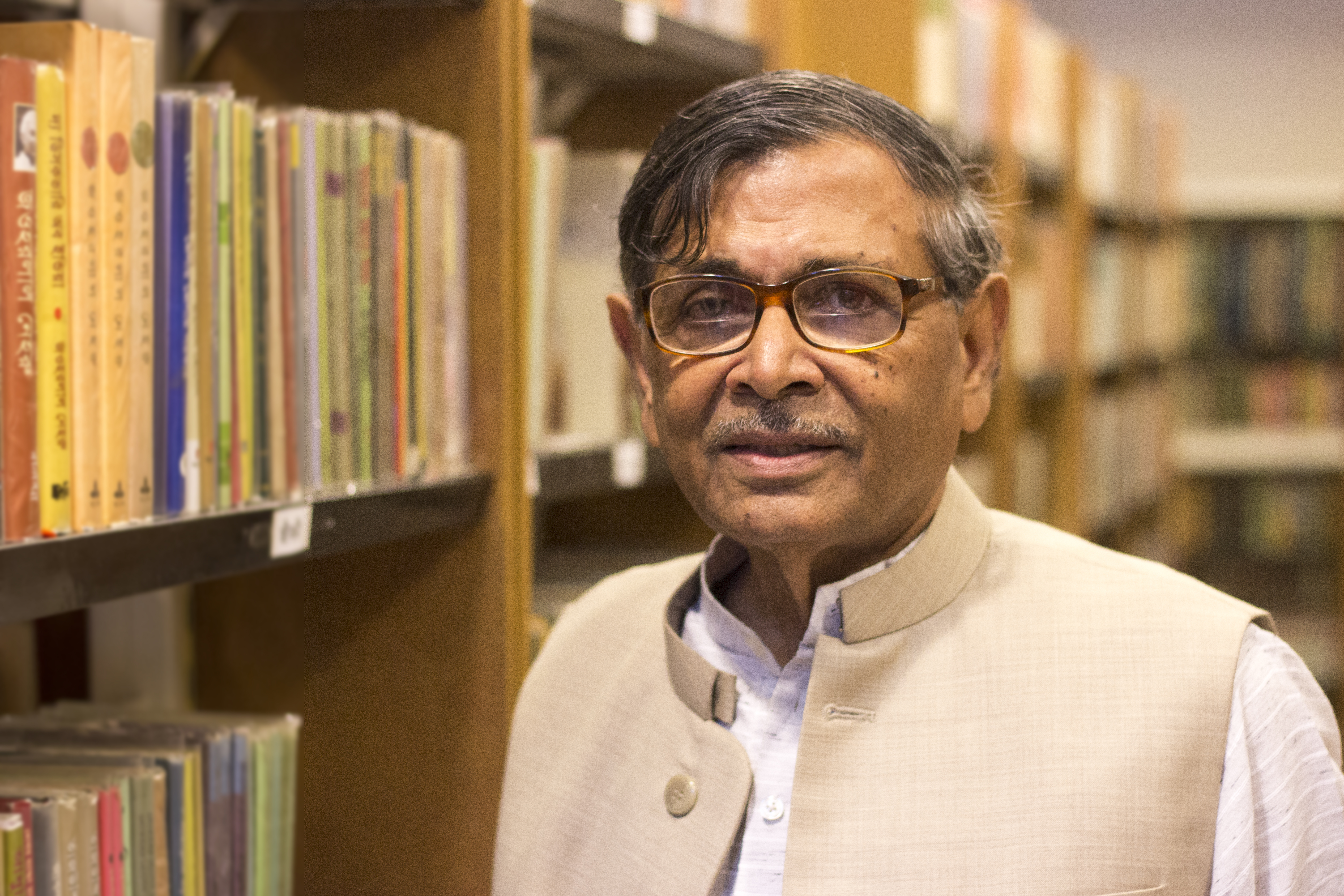 Abdullah Abu Sayeed (Bengali: আবদুল্লাহ আবু সায়ীদ; born 25 July 1939) is a Bangladeshi writer, television presenter, organizer and activist. He is currently the Chairman of Bishwa Sahitya Kendra, a non-profit organization that promotes the study of literature, reading habits and progressive ideas.